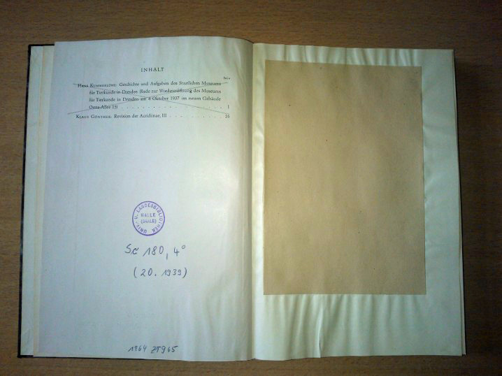 Paper of Hans Kummerlöwe (1939): Geschichte und Aufgaben des Staatlichen Museums für Tierkunde in Dresden. Abh. & Ber. Staatl. Mus. Tierkunde & Völkerkunde 20 (N.F. Reihe A, 1): 1-15. Unknown people crossed the title out, removed pages 1 to 14, and pasted over page 15 (page 16 is the begin of next article) in many libraries. This example is from library of the Martin-Luther-University Halle (Saale), Germany.